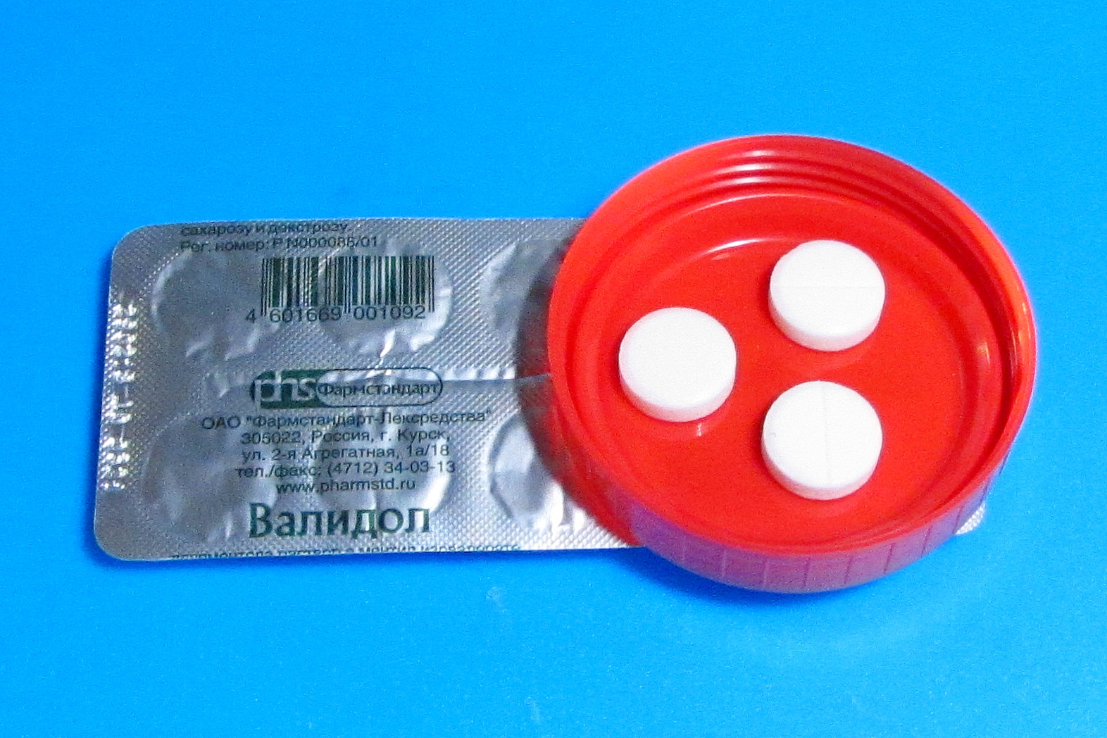 Menthyl isovalerate, also known as validolum, is the menthyl ester of isovaleric acid. It is a transparent oily, colorless liquid with a smell of menthol. It is very slightly soluble in ethanol, while practically insoluble in water. It is used as a food additive for flavor and fragrance.